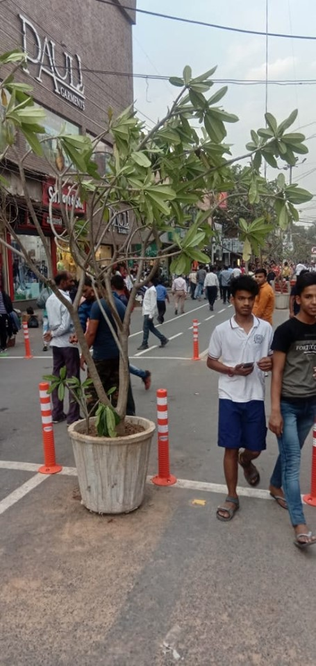 Karol Bagh Market - Revitalized 2019